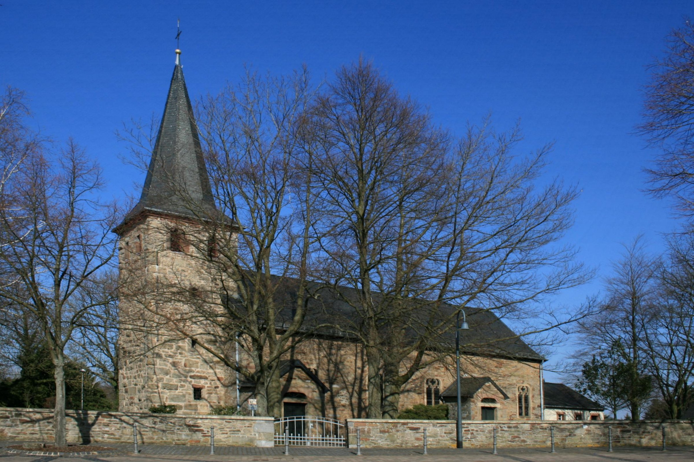 Cultural heritage monument No. 5 in Hürtgenwald